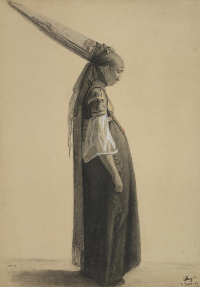 Jewish Woman of Algiers